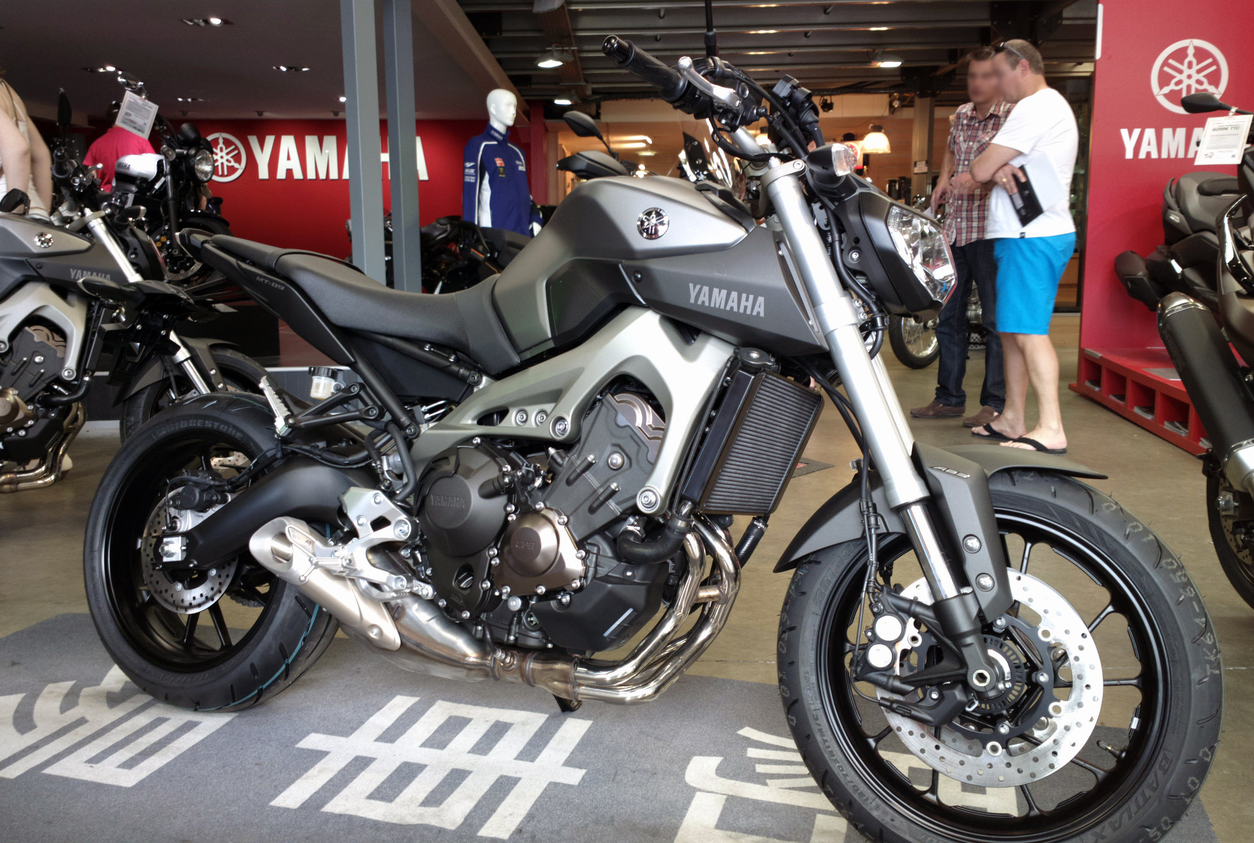 Yamaha MT-09 matt grey exposed concession